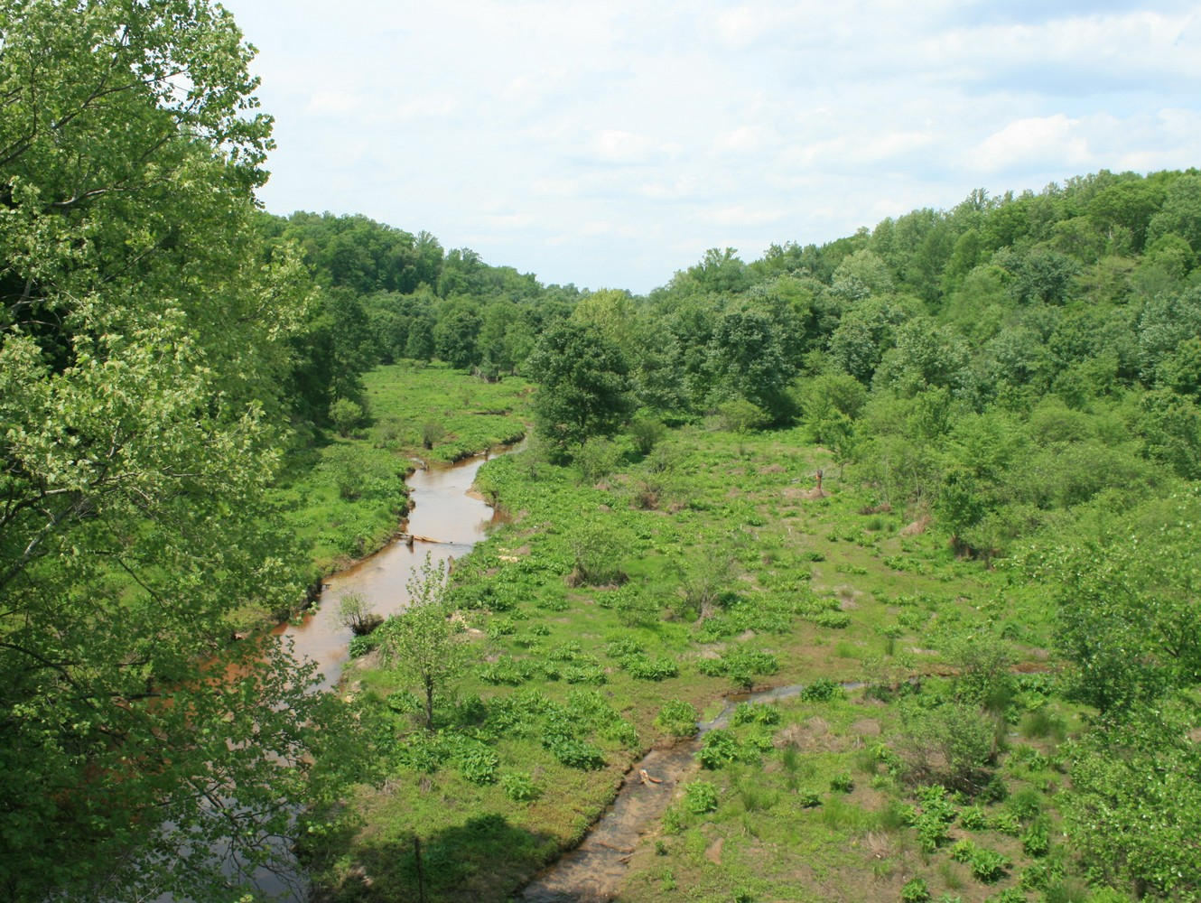 Beaver Dam Creek